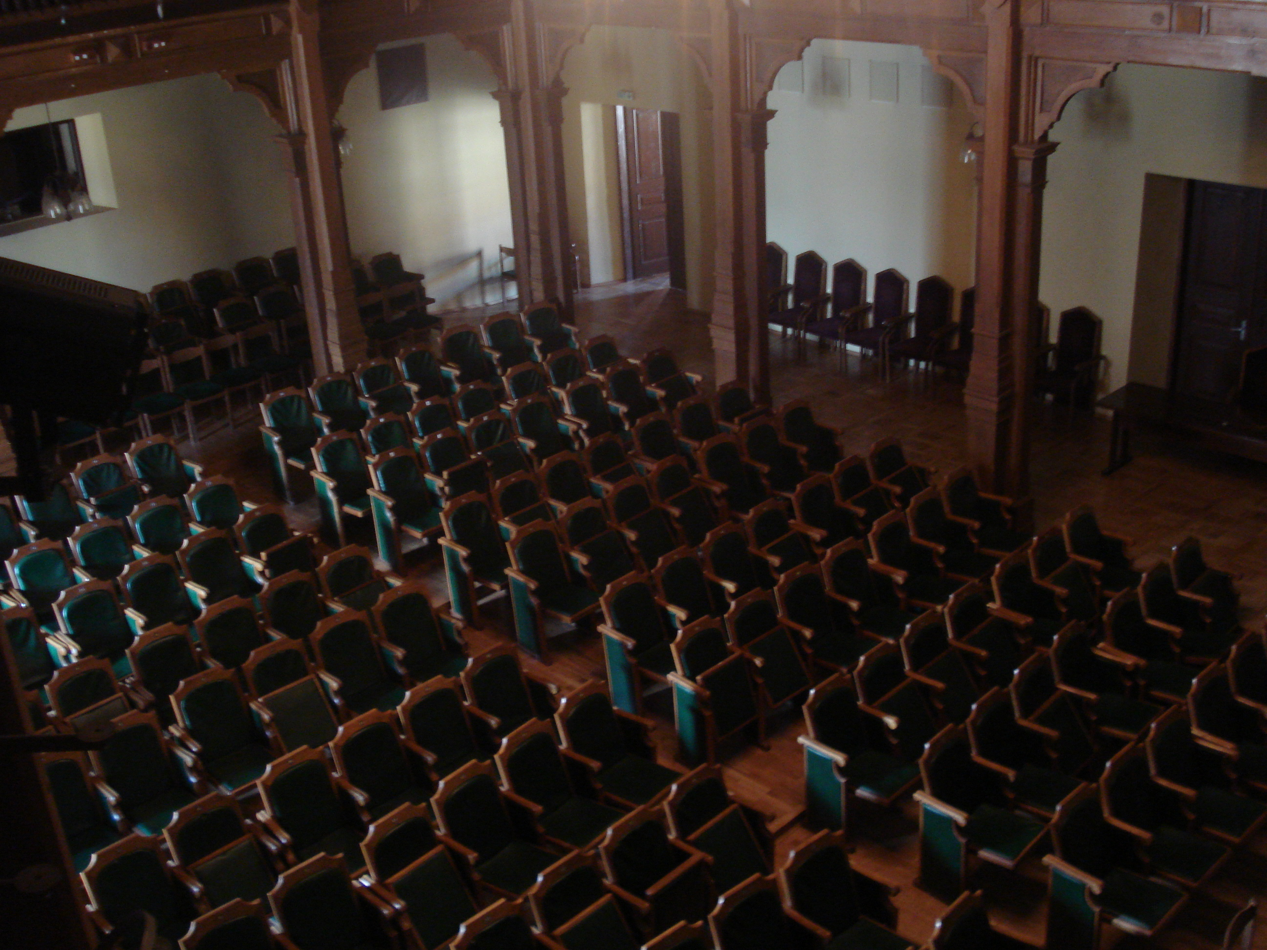 Theatre Hall (main building of Vilnius University)